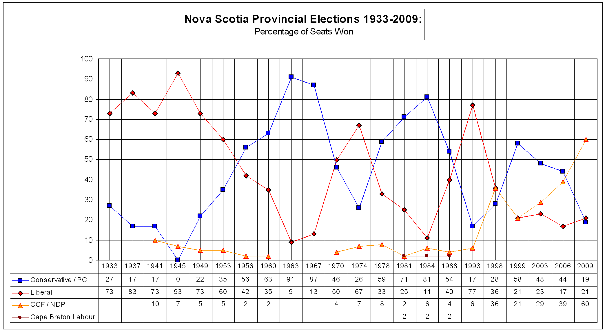 Nova Scotia general election results from 1933 to 2009, shown as a percentage of total seats in the House of Assembly won by each party (or independent MLA).